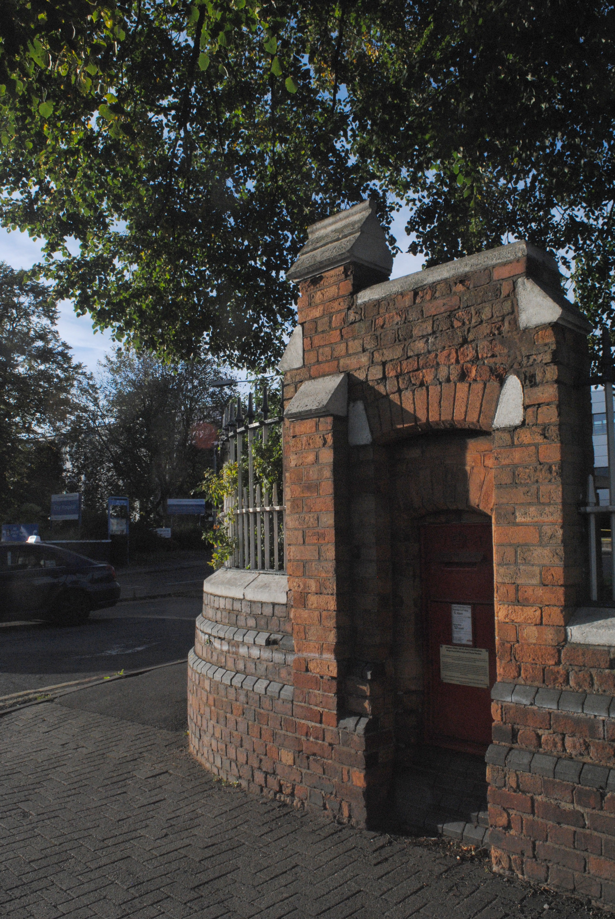 Victorian postbox on Dudley Road, Birmingham, England, with plaque attached commemorating Sergeant Albert Gill VC.